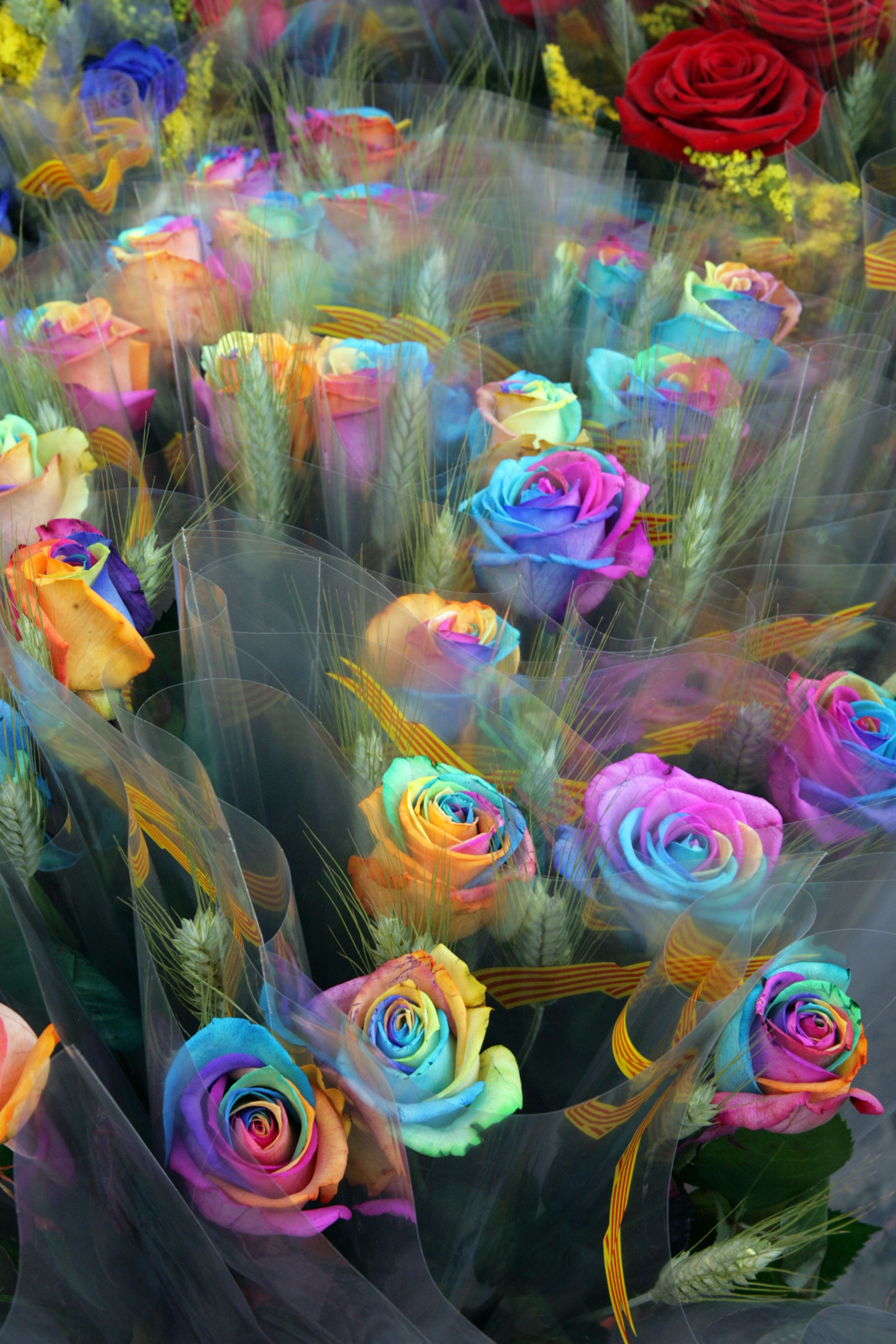 St George's Day in Catalonia